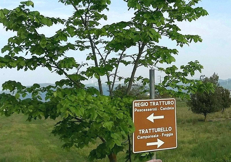 Tratturo-Tratturello fork over Camporeale highlands, 8 km north-east of Ariano Irpino